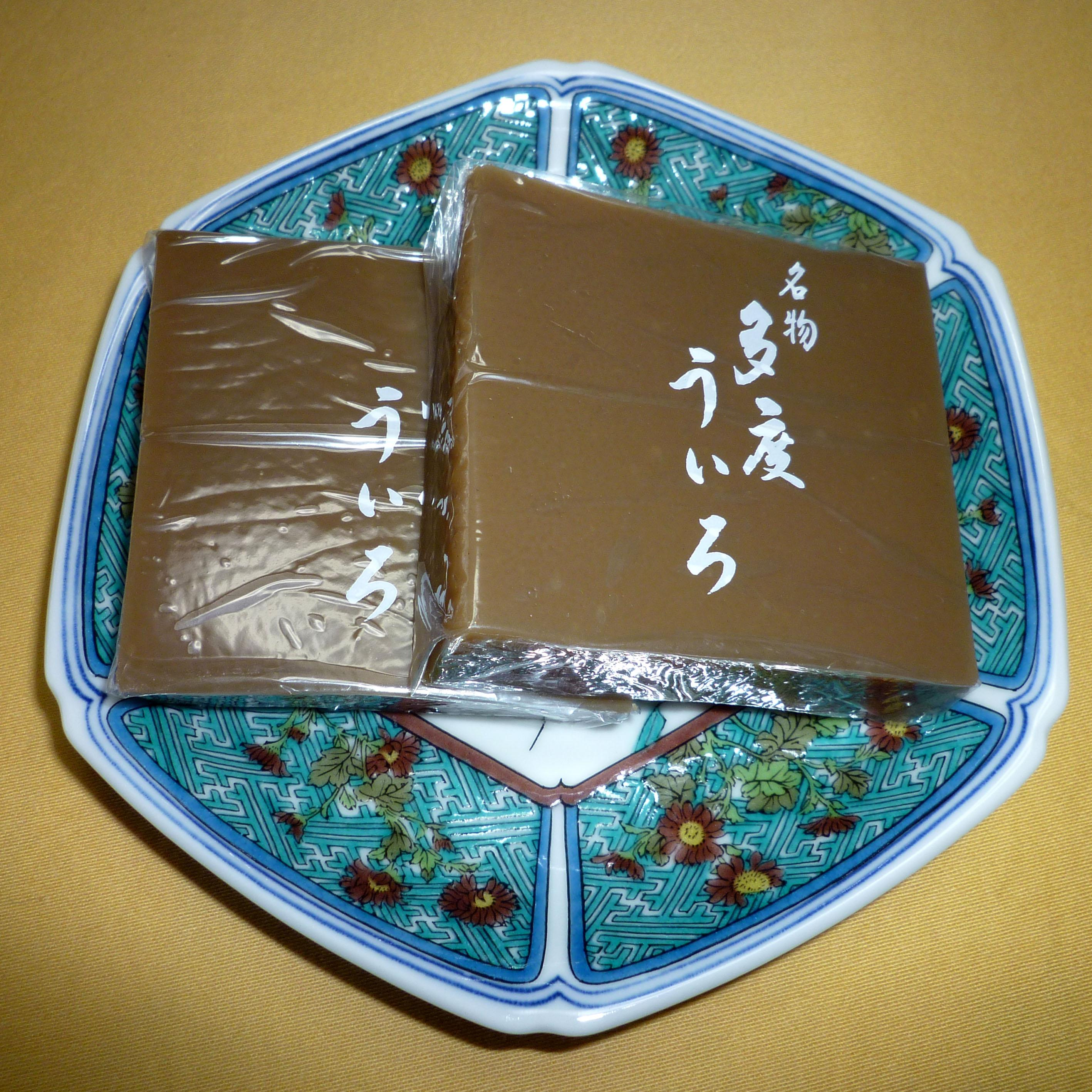 Tado uirō